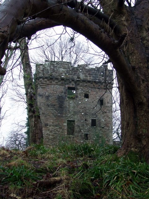 Inverkip Castle 15th century tower in the garden of Ardgowan House which replaced the tower as the Shaw Stewart residence when it was built in 1798. The castle is not open to the public and is only visible from the path in the winter months when there are no leaves on the trees.